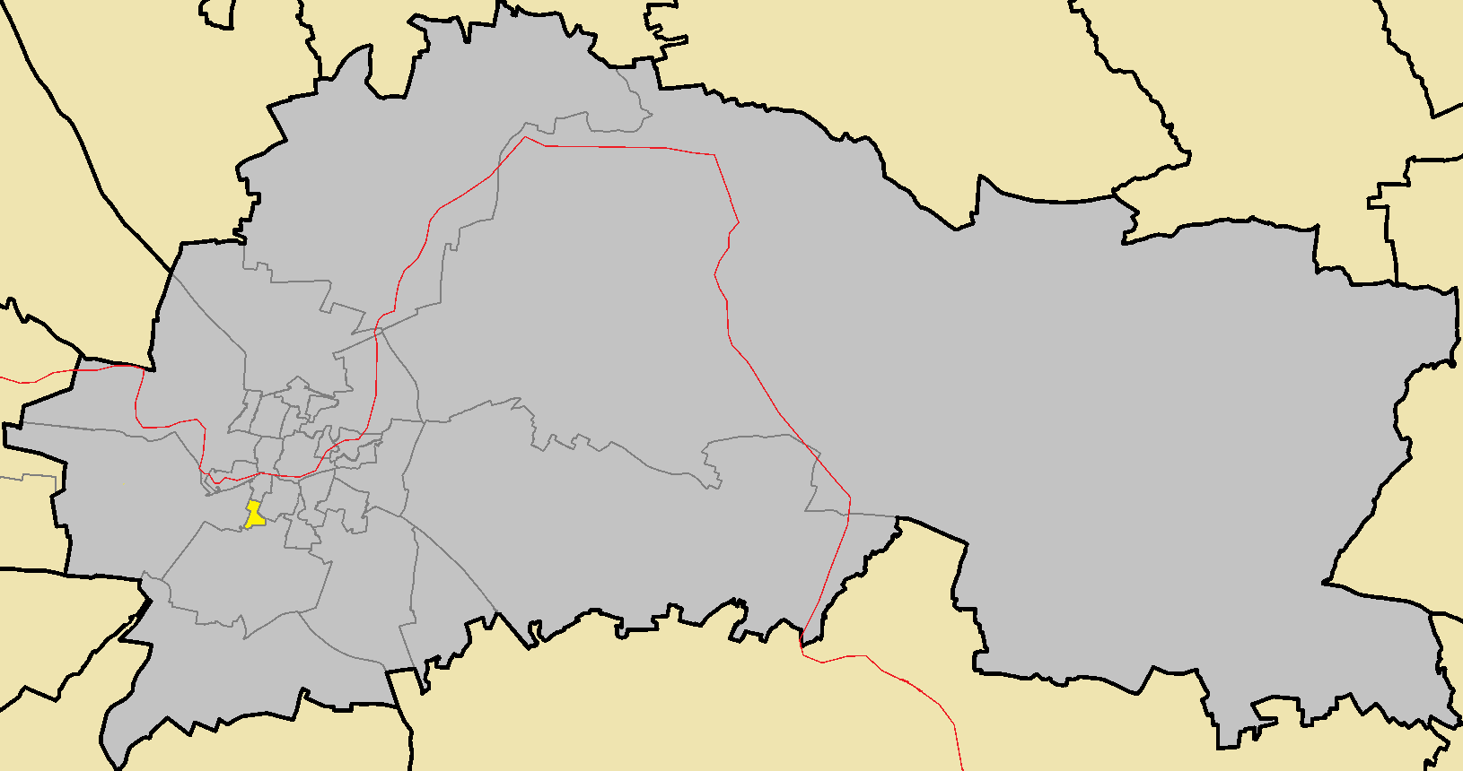 Tabakhane, Nicosia in Nicosia Municipality.